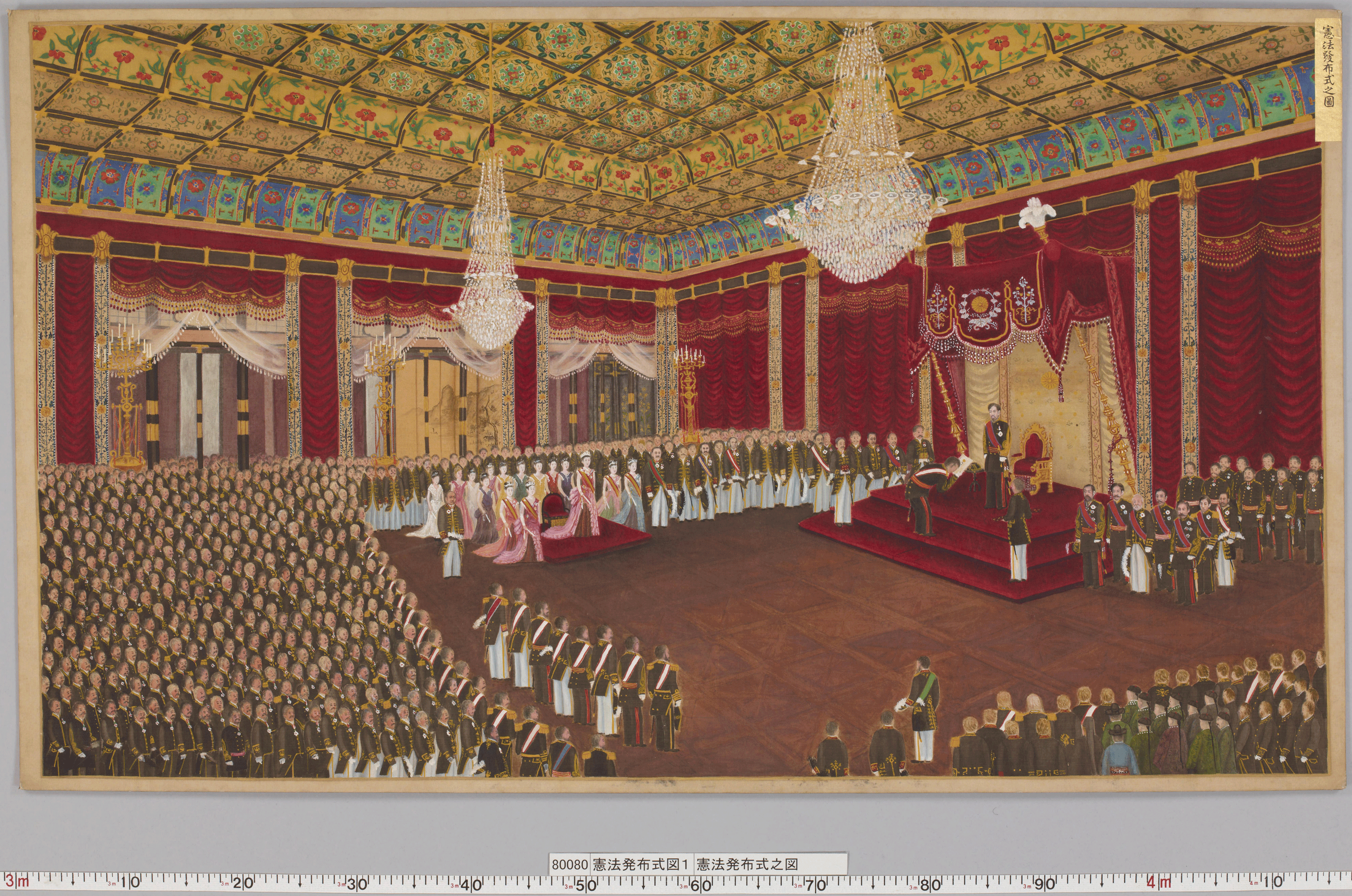 Painting of the promulgation ceremony of the Constitution of the Empire of Japan (Kyūjitai: 大日本帝國憲法). Emperor Meiji proclaims the constitution in the palace on 10:40 AM, February 11, 1889.